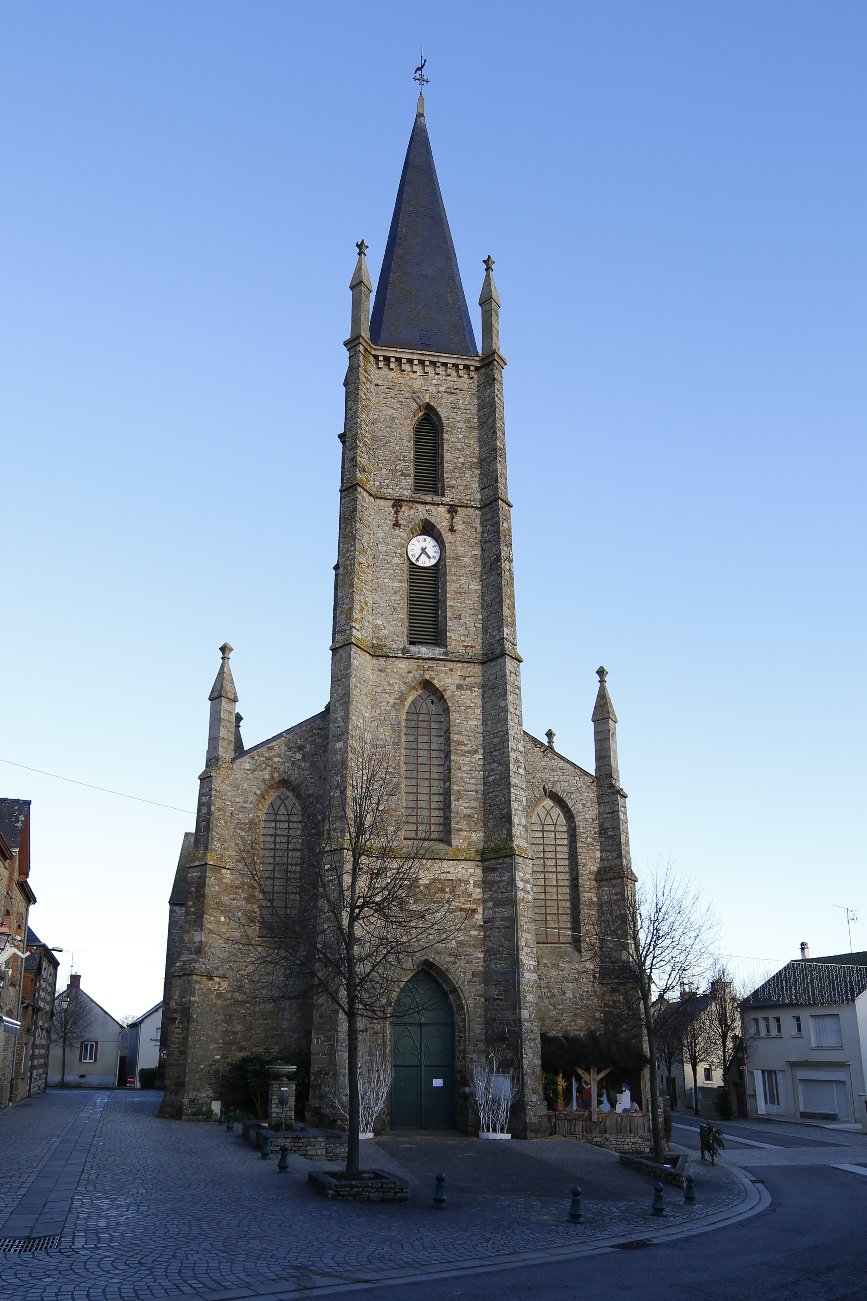 Church of Teillay.